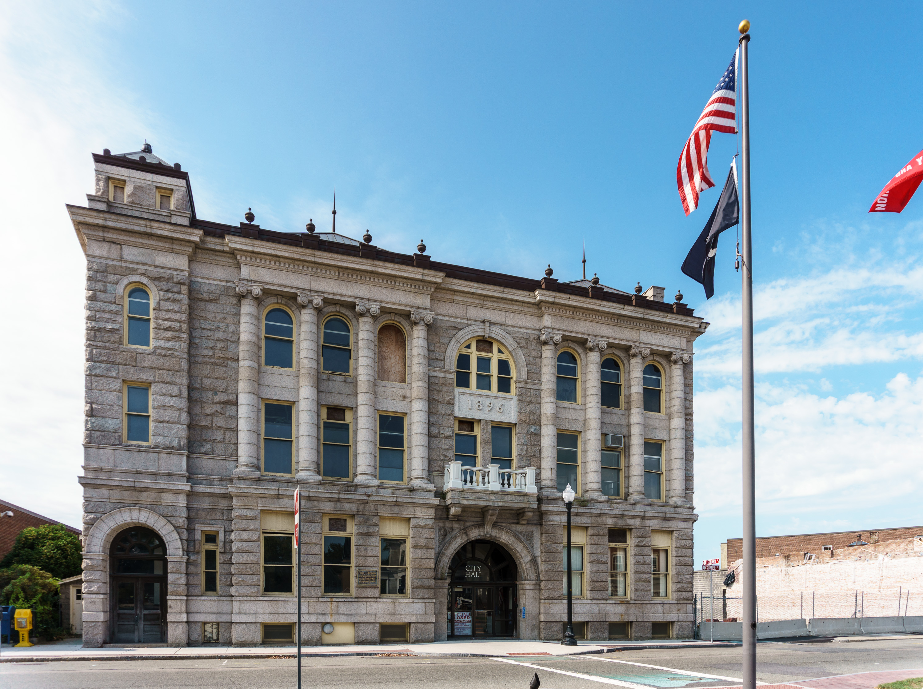 Taunton MA City Hall, damaged by fire and closed. NRHP 77000168